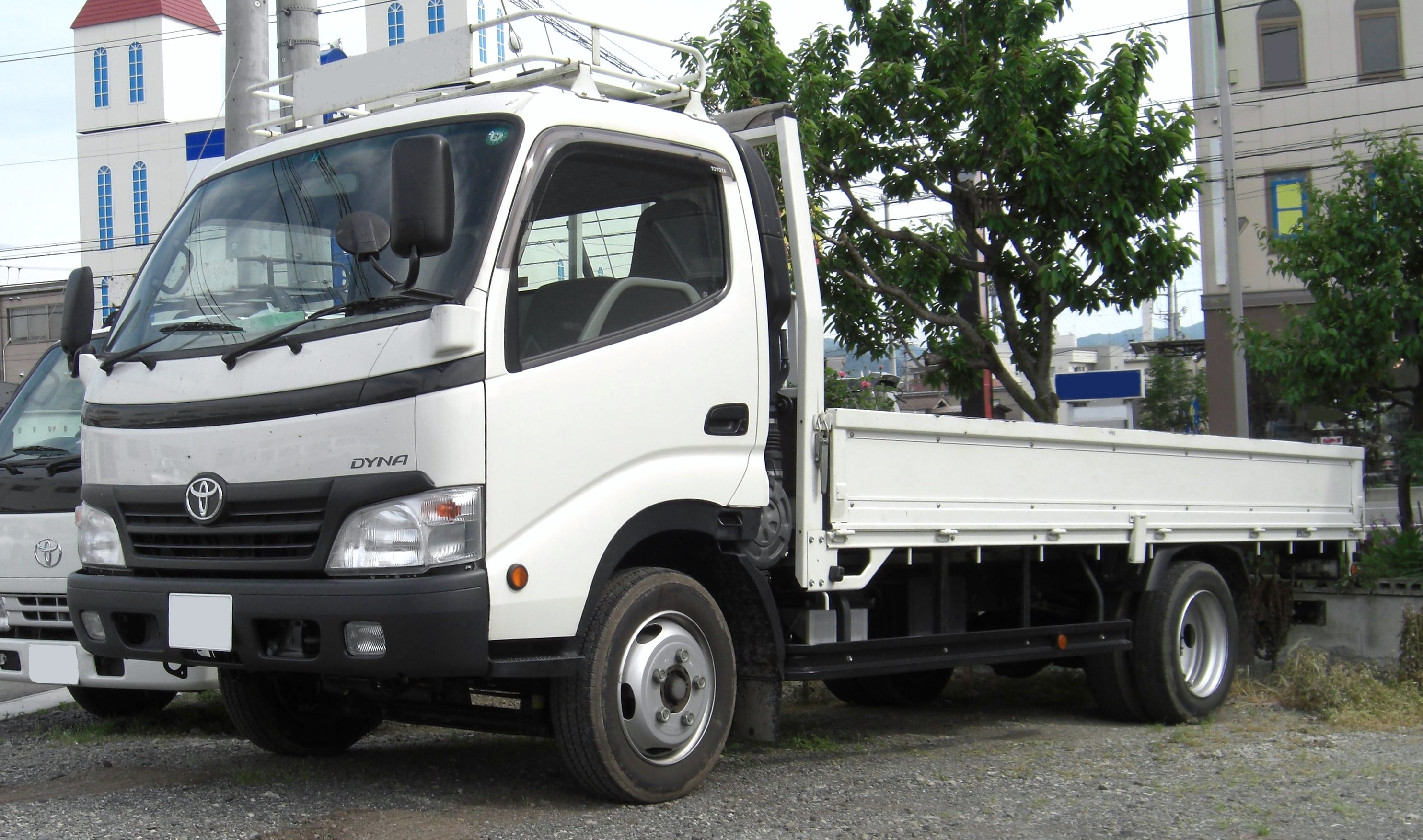 Toyota Dyna